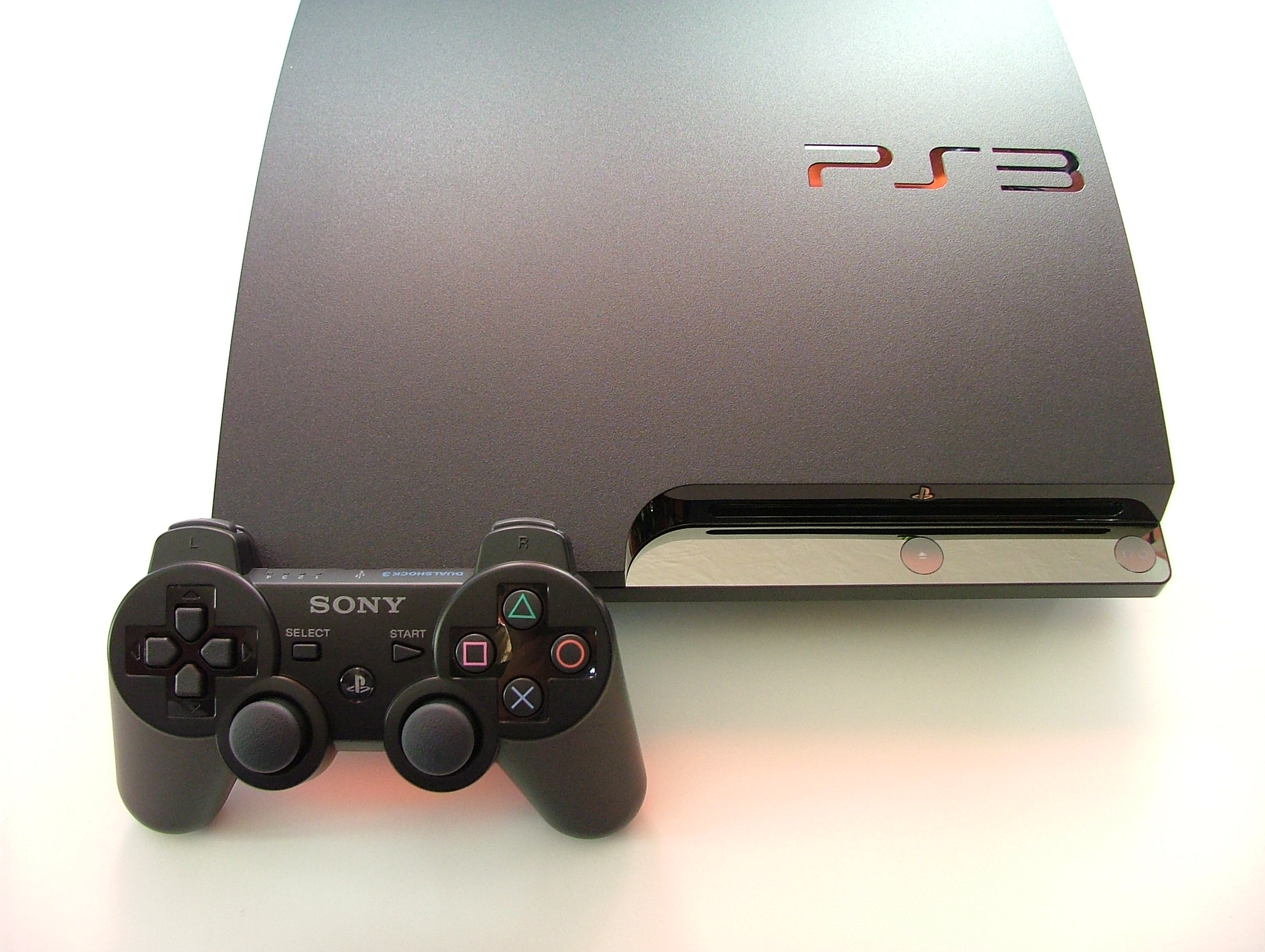 Sony PlayStation 3 Slim Console (250GB model)